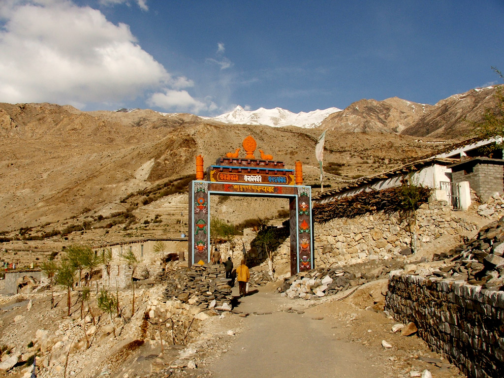 Entrance to Nako gompa, Spiti.